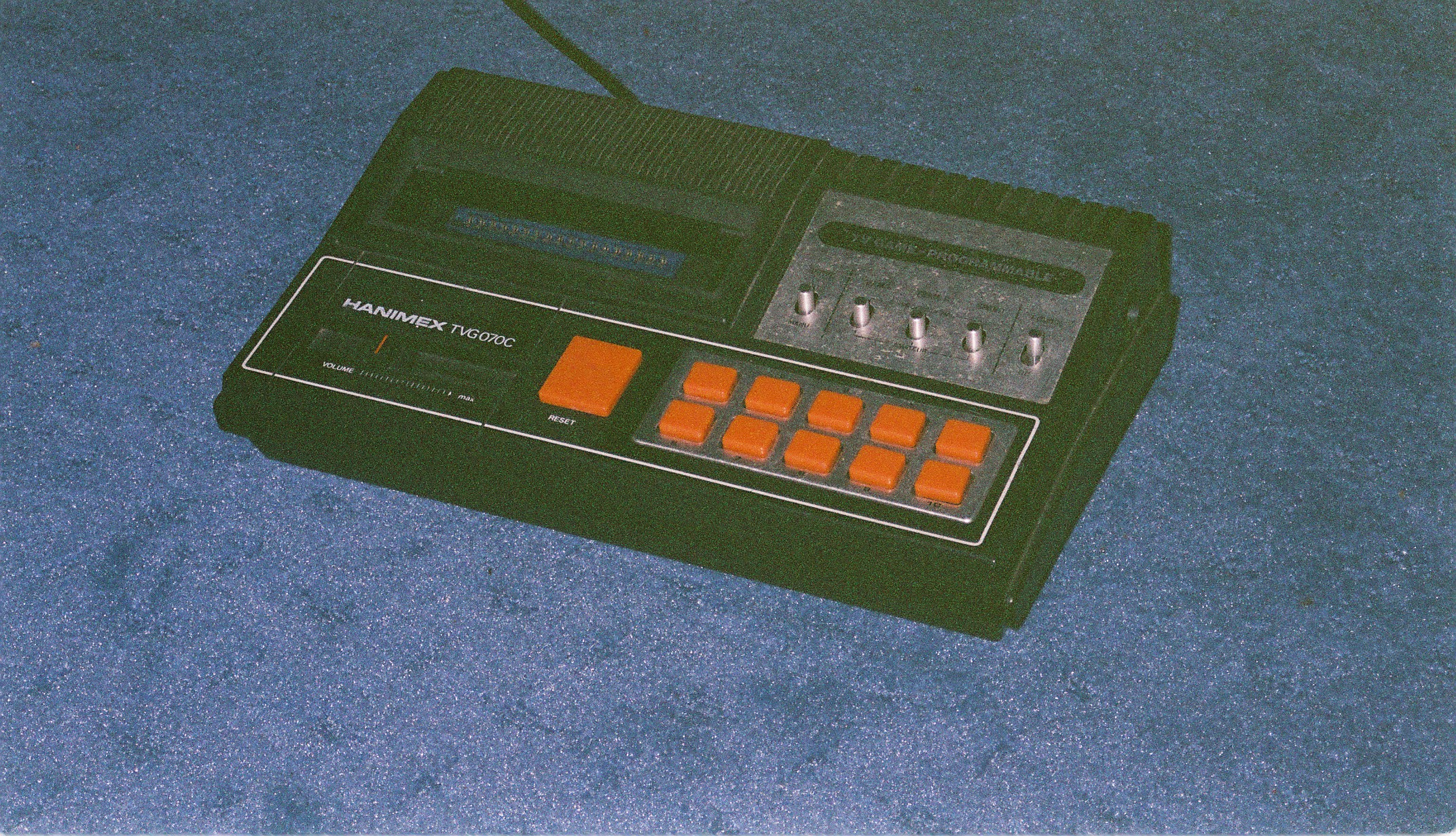 Hanimex TVG 070C. Pong console of 197x